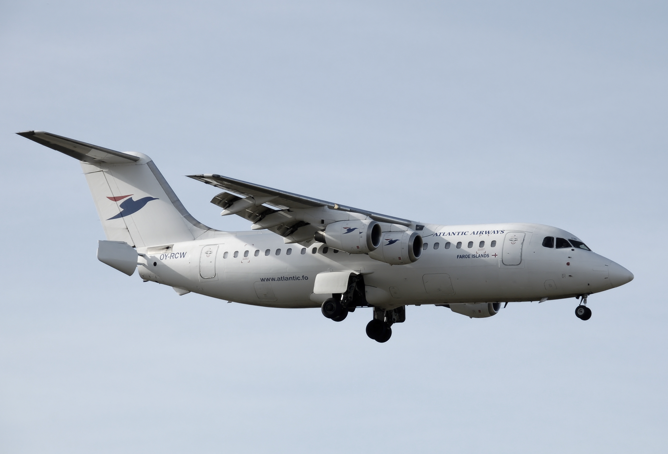 Atlantic Airways British Aerospace 146 lands at Birmingham International Airport, England.